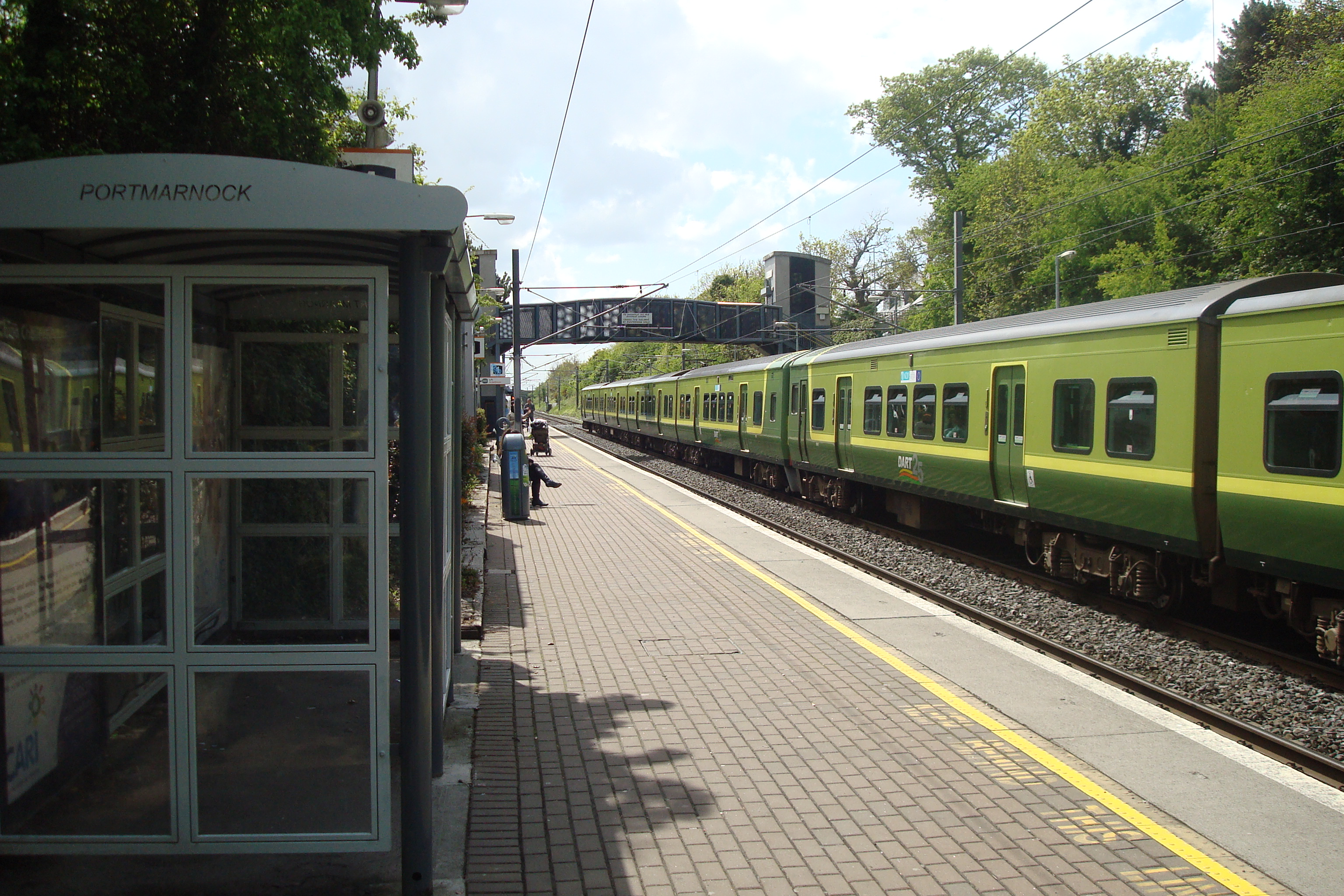 Portmarnock Train Station with a DART pulling into the North bound platform.